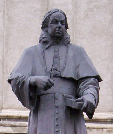 Statue of Károly Esterházy, bishop of Eger, town builder landlord of Pápa, at the Main Square in Pápa, Hungary. Art by László Marton, inaugurated at 4 May 2000